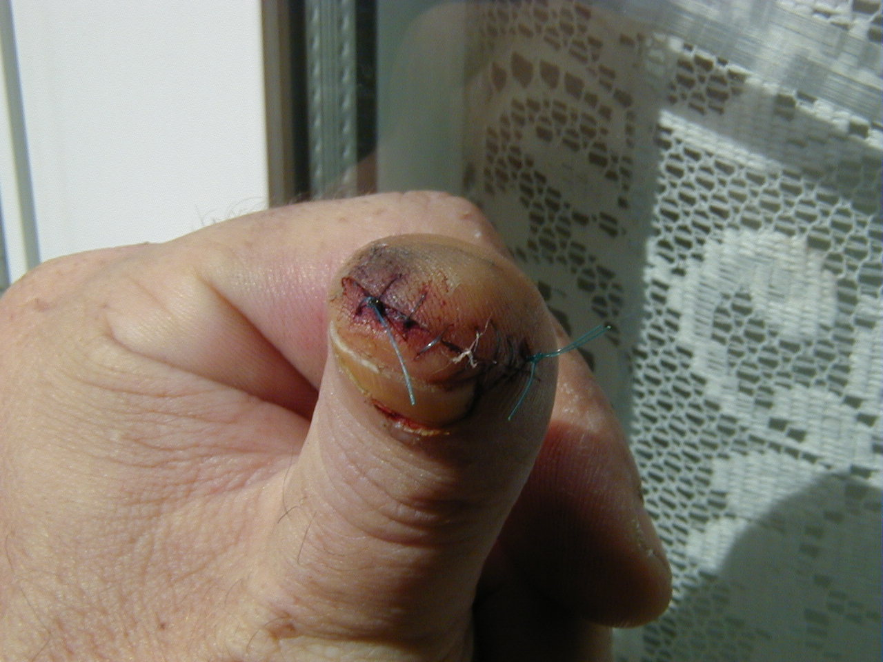 Thumb surgical suture after a working accident.